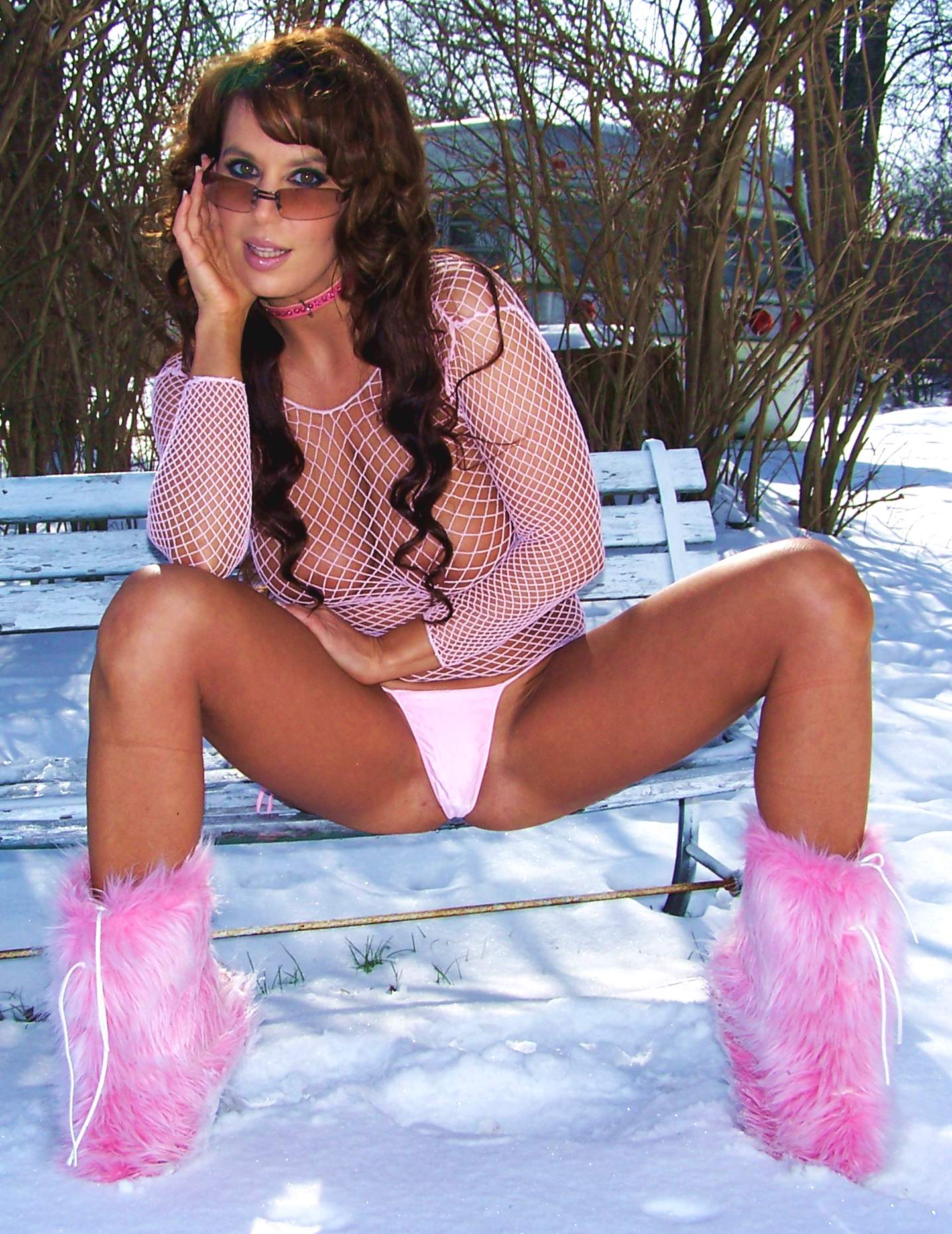 American pornographic actress Felicia Fox. She is in pink long sleeves, white g-string bottoms and pink fur boots.